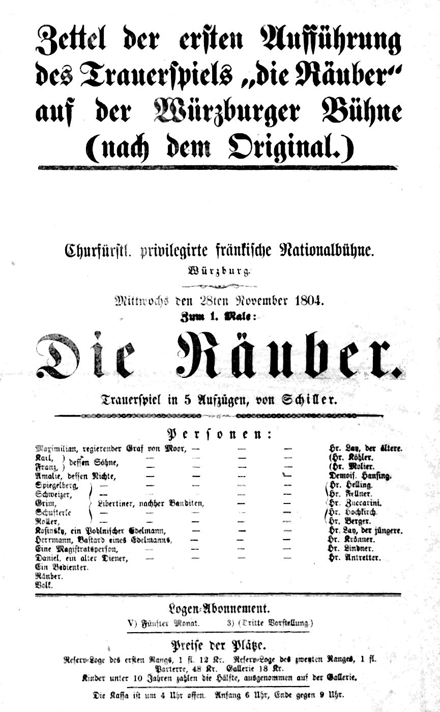 Playbill for the premiere of The Robbers by Friedrich Schiller in Würzburg (The name of Maximilan's niece is Amelia, not Amelie as printed on this playbill.)